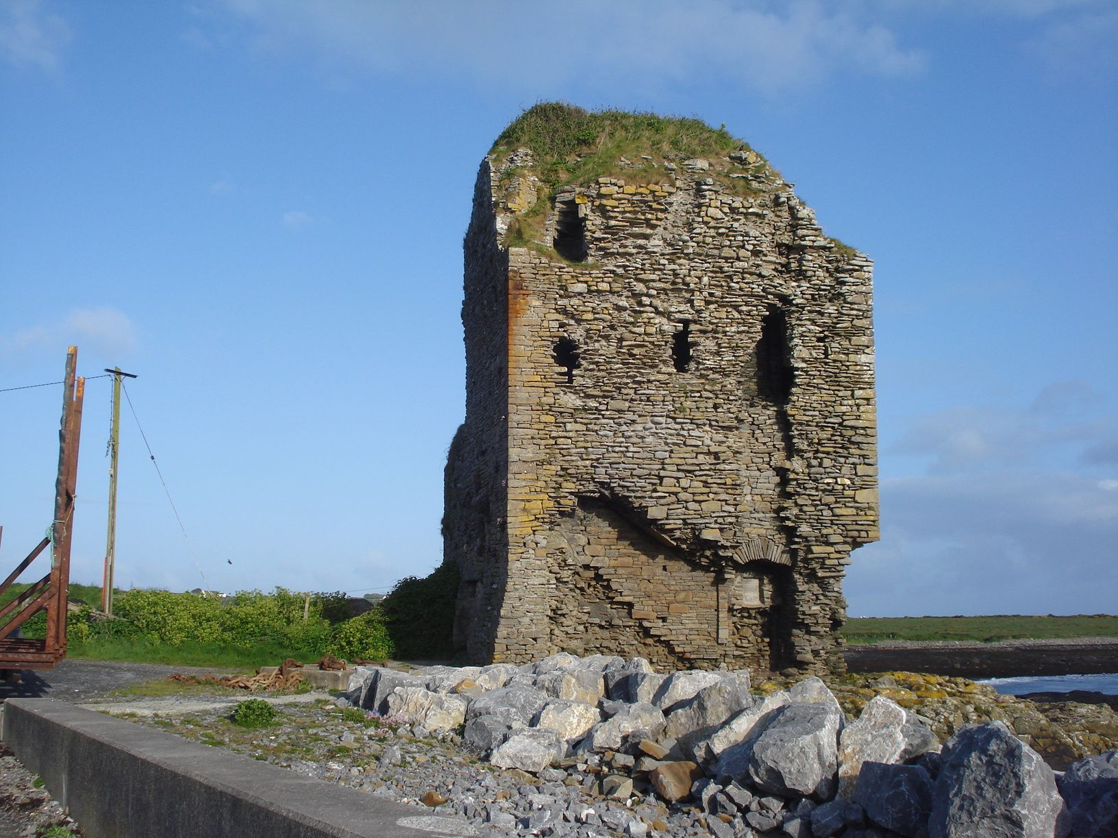 Doonmore Castle, overlooking the fishery pier of Doonbeg Bay